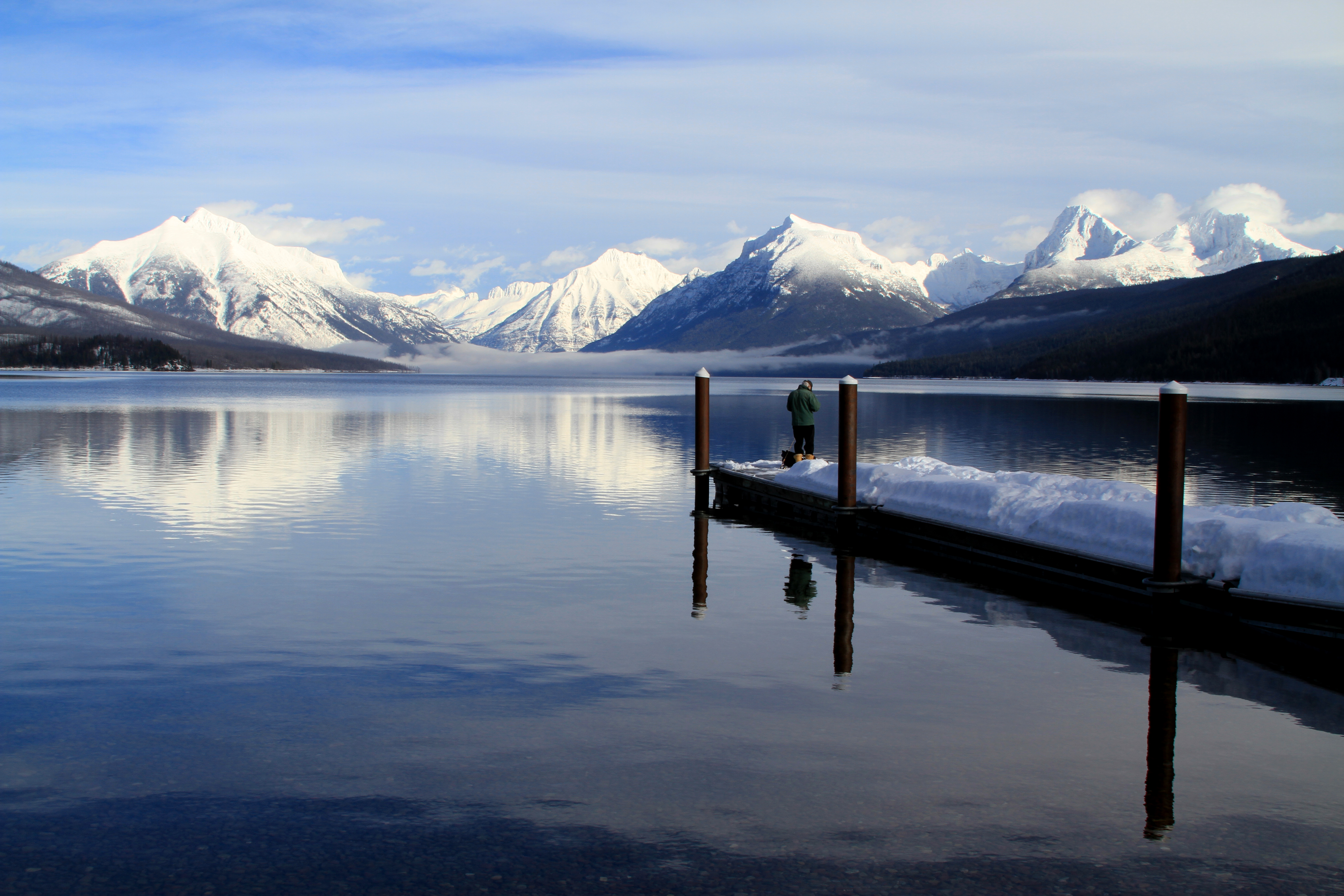 Winter Fishing on Lake McDonald, Glacier National Park.